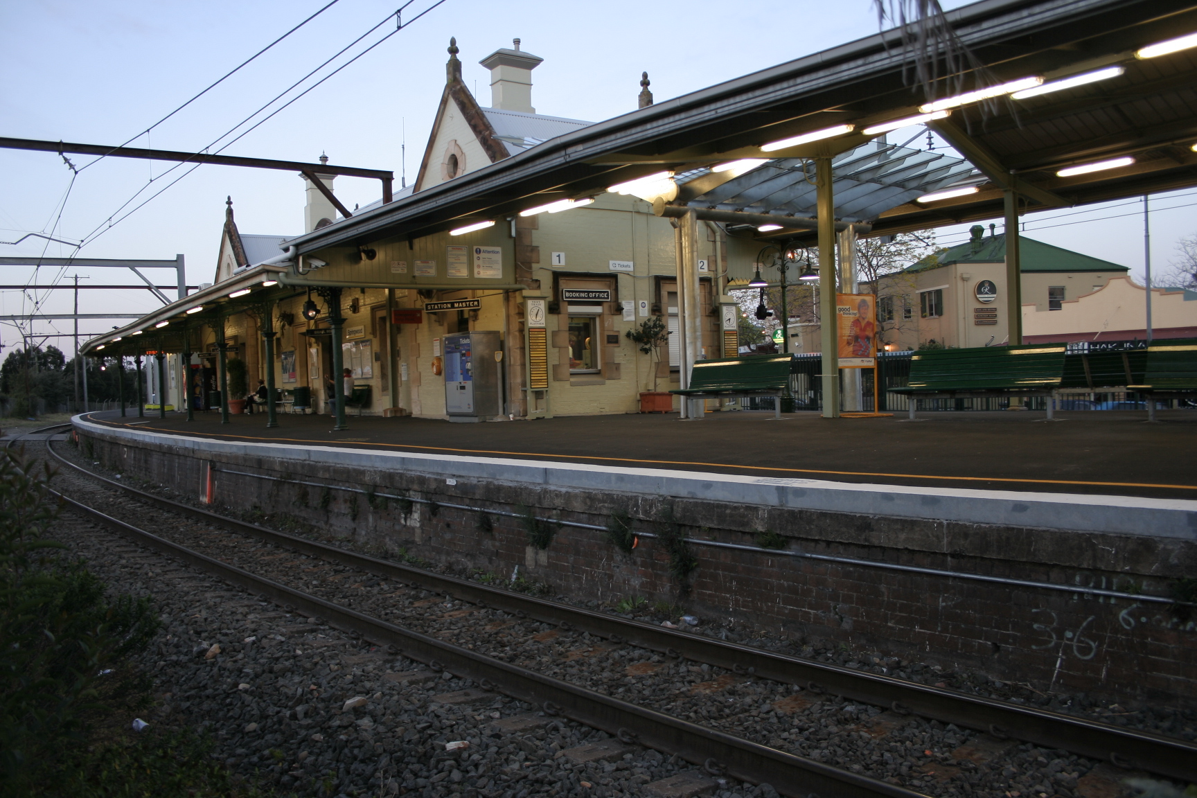 Springwood_station